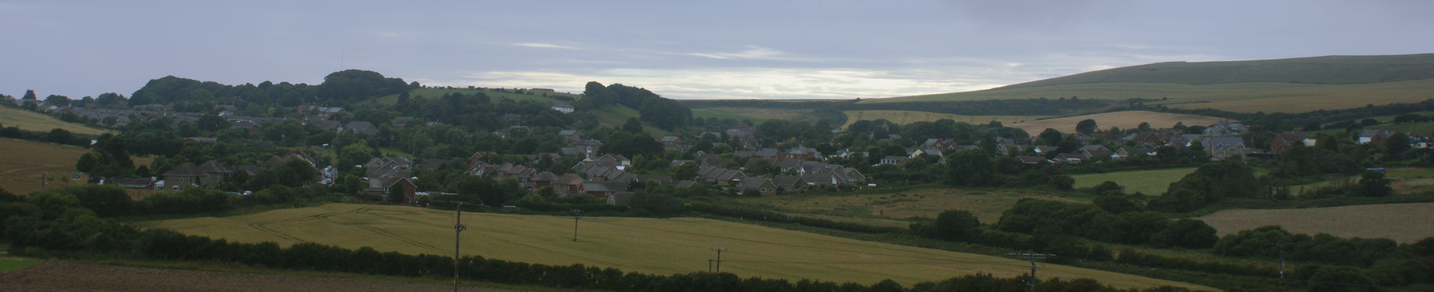 The view over Niton on the Isle of Wight.